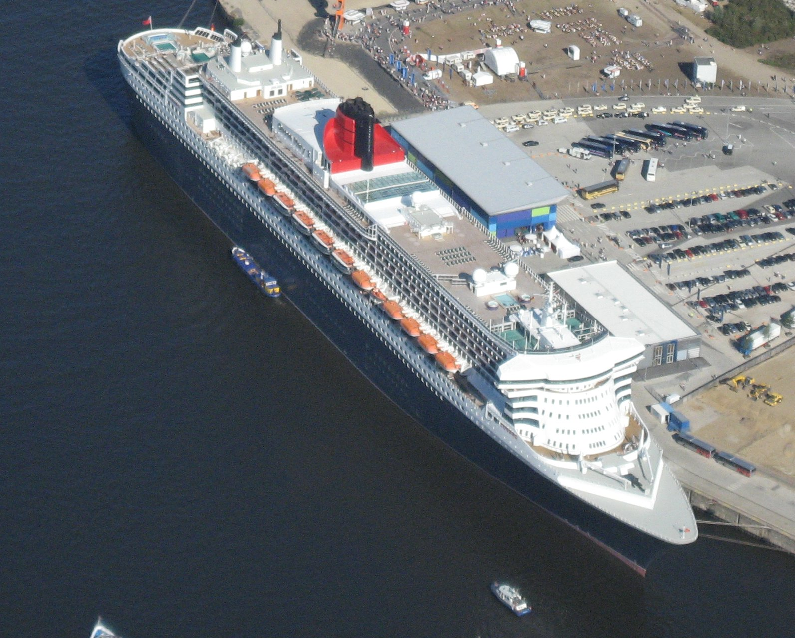 Queen Mary 2 in the Hamburg Harbour